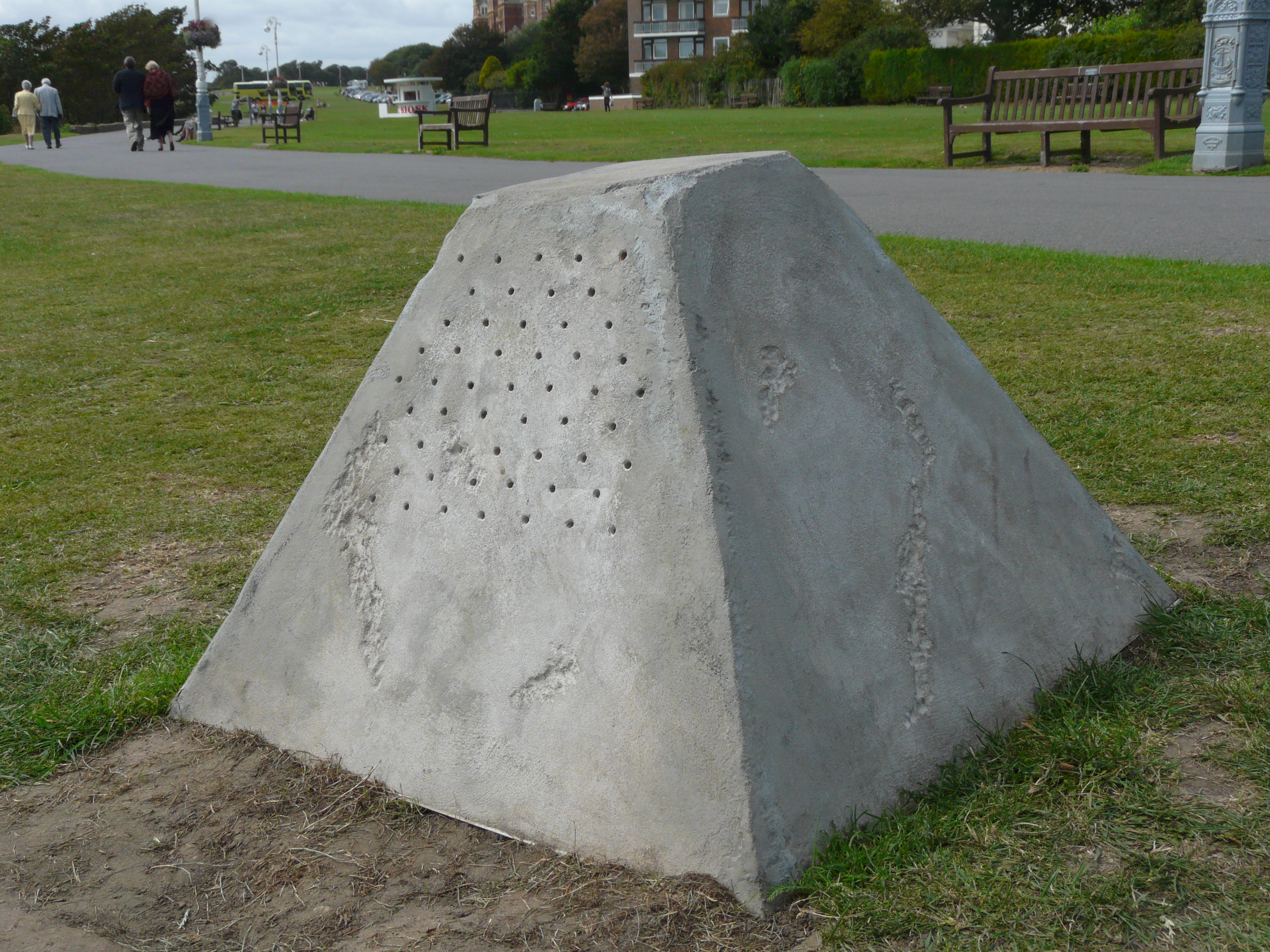 The Stones Holding the Recordings Used for 'The Whispers' by Christian Boltanski, created for the Folkestone Triennial.